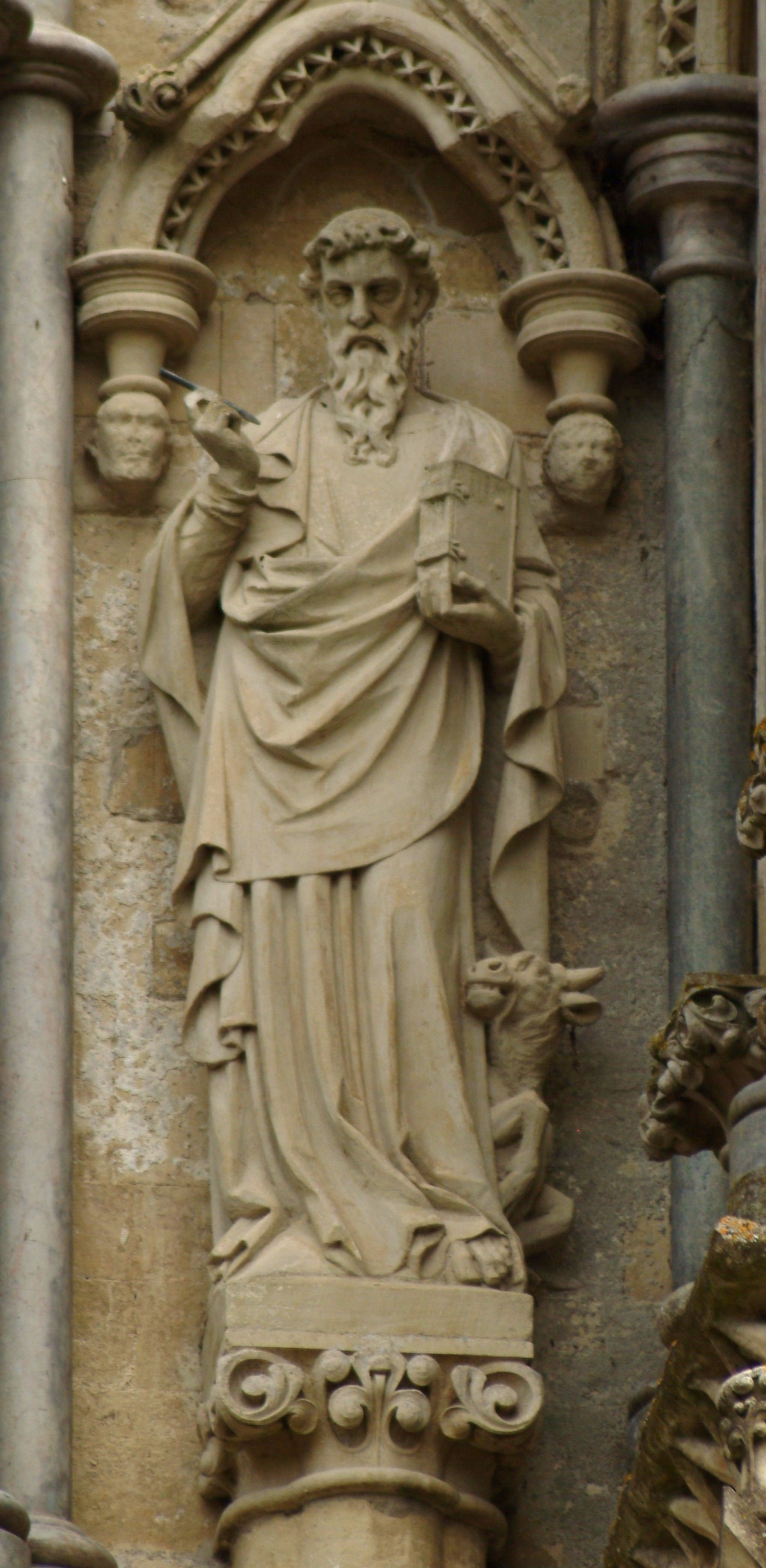 Statue of St Luke the Evangelist on the West Front of Salisbury Cathedral, UK.